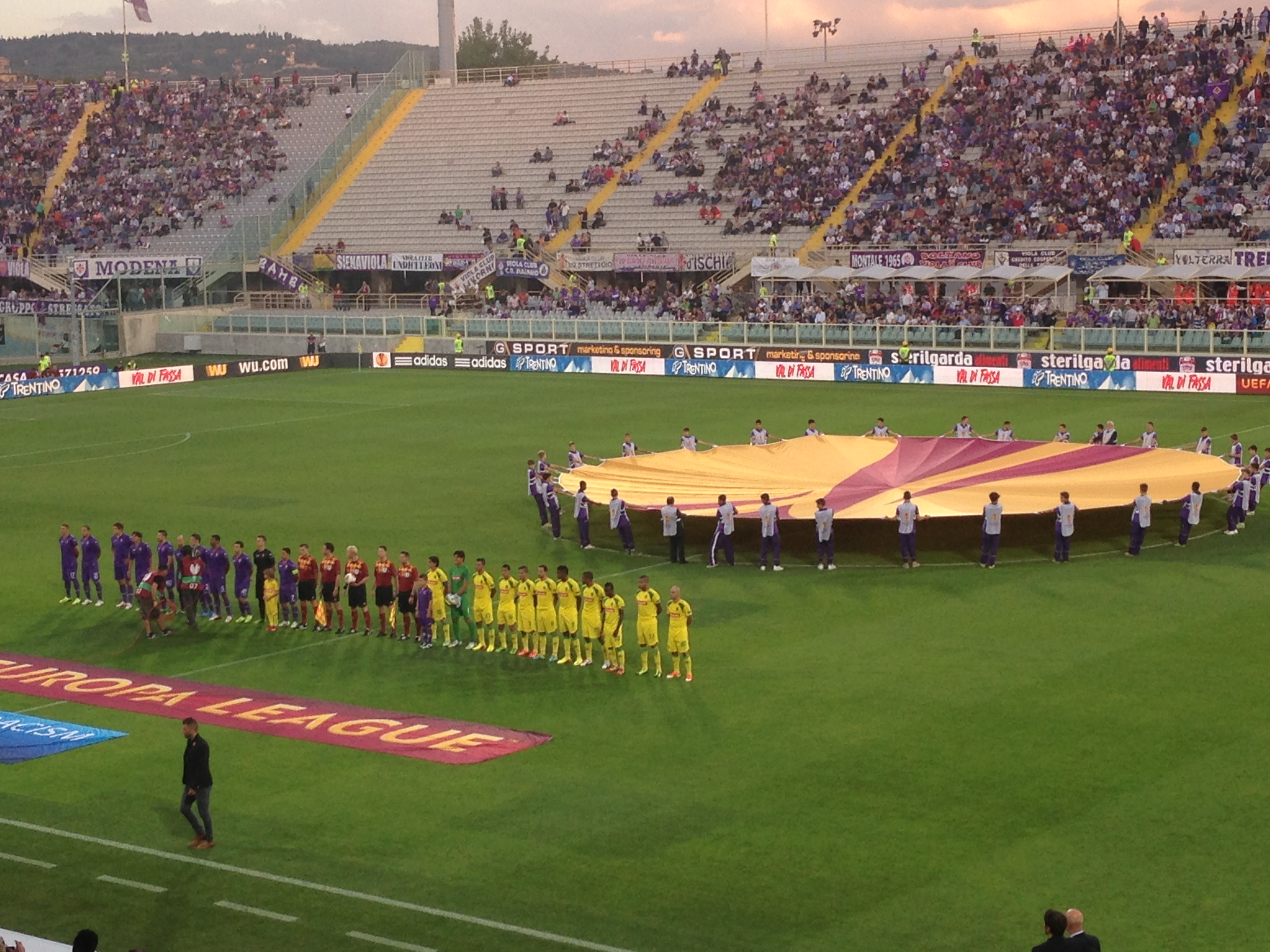 Fiorentina-Paços de Ferreira, Europa League 2013/2014